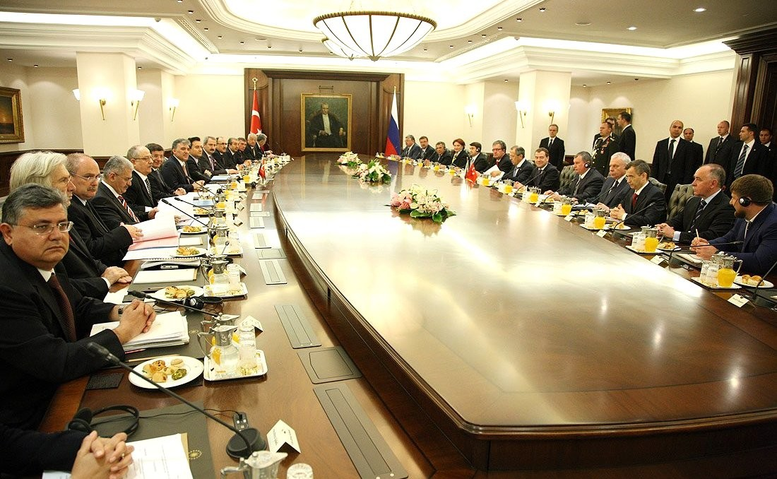 Turkish president Abdullah Gül and Russian president Dmitry Medvedev on state visit in Turkey.